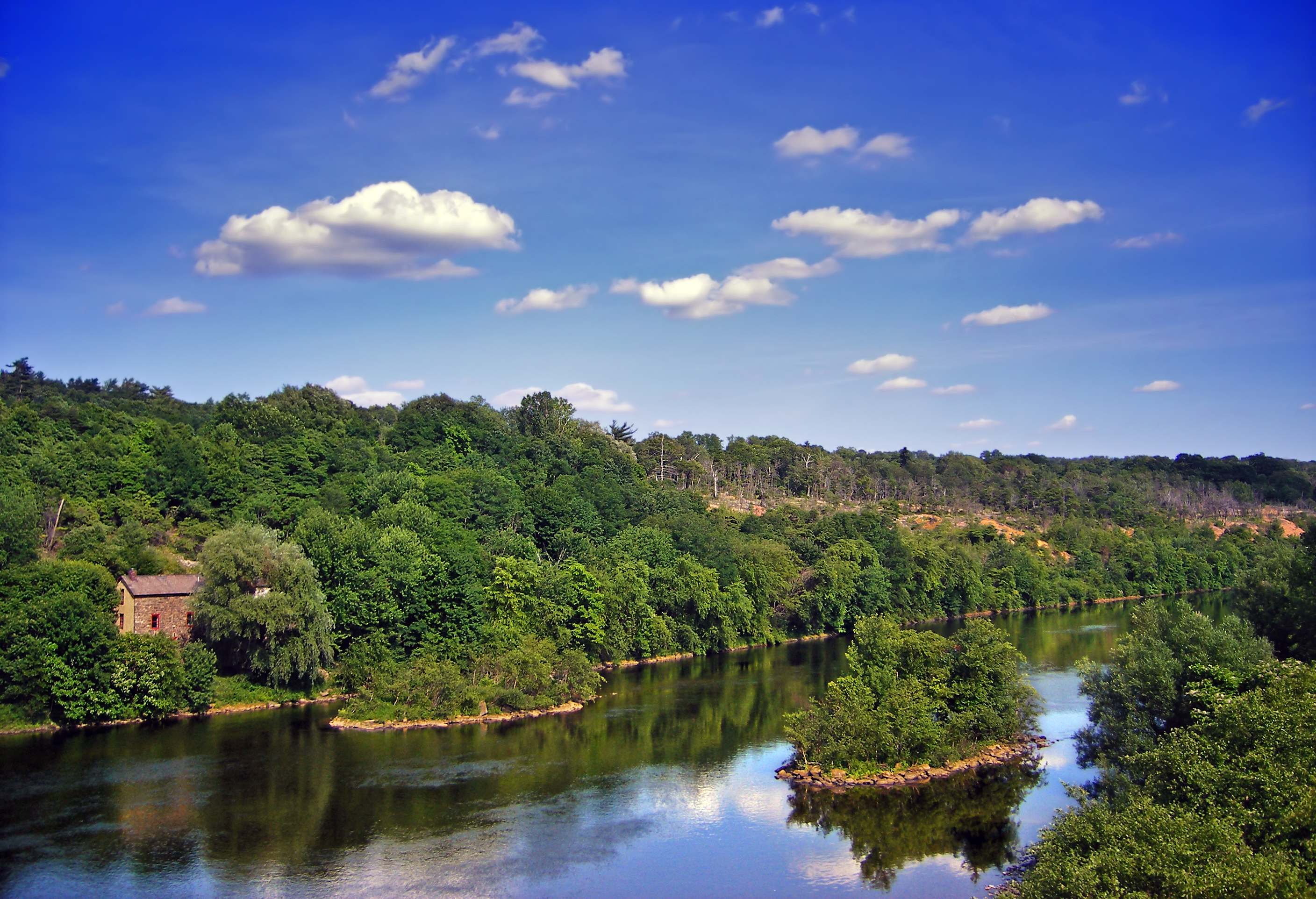 Lehigh River near Slatington, Lehigh County–Northampton County line.